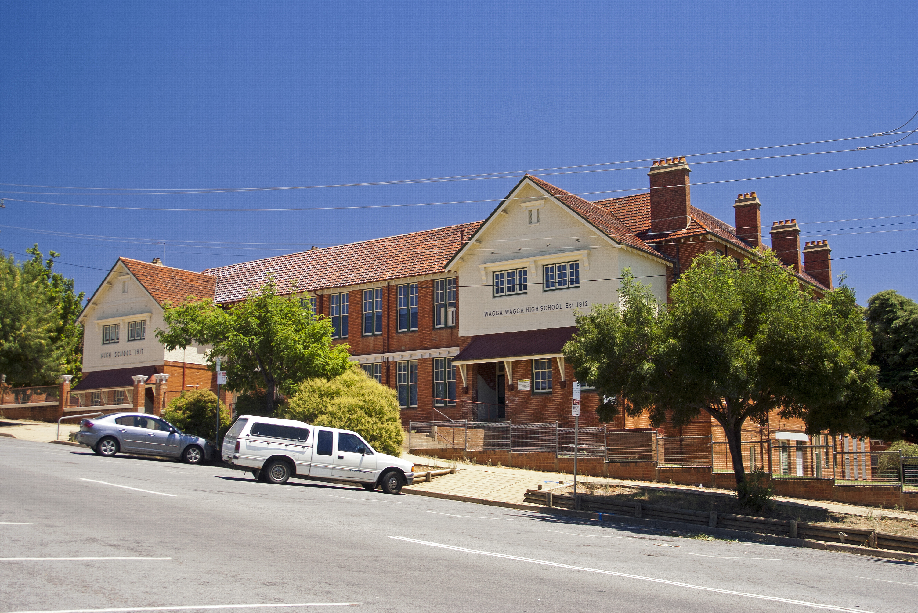 Wagga Wagga High School located in the Wagga Wagga suburb of Turvey Park, New South Wales.